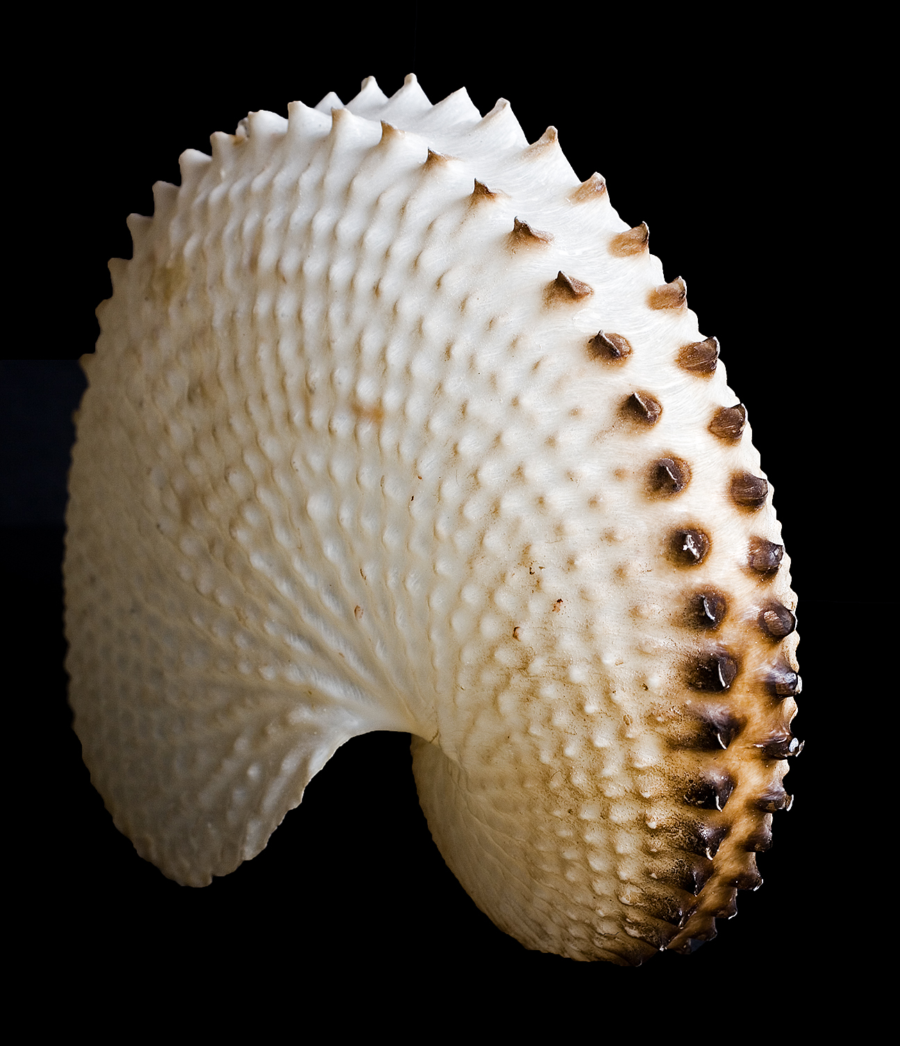 Paper Nautilus Shell